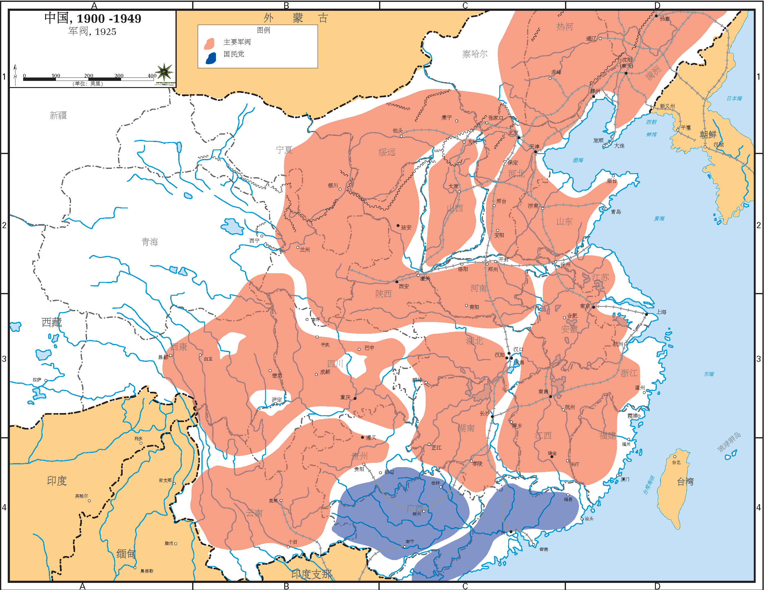 Major Chinese warlord coalitions (1925)